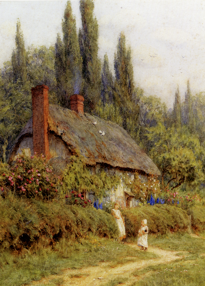 Helen Allingham (26 September 1848 - 28 September 1926), was a well-known watercolour painter illustrator of the Victorian era. Children On A Path Outside A Thatched Cottage West Horsley Surrey